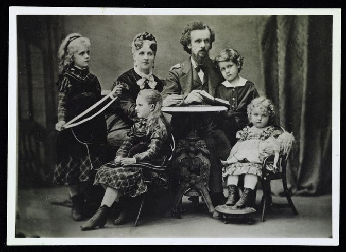 Tthe sculptor Melchior Anton zur Strassen with his wife Cäcila nee Otto, and the four children, including the later zoologist Otto zur Strassen (1869-1961)